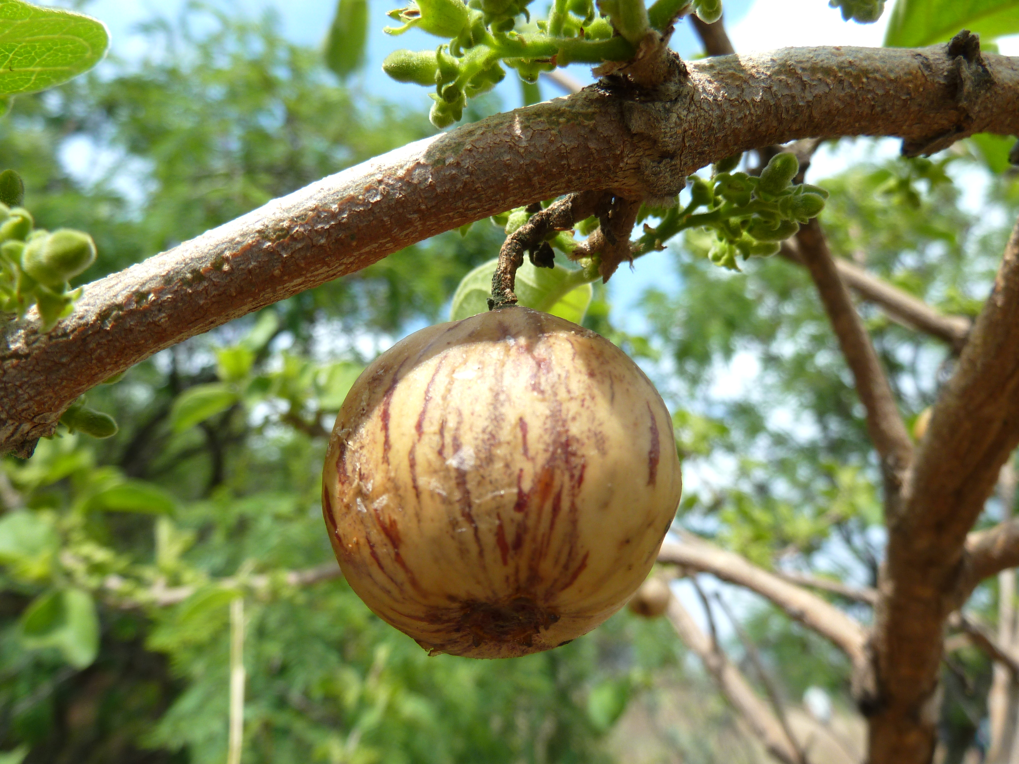 Fruit of a Wild medlar at Schanskop, Pretoria